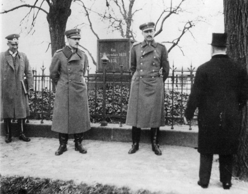 C.G.E. Mannerheim and Lennart Oesch in the 300 year anniversary of the battle of Lützen on 6 November 1932.